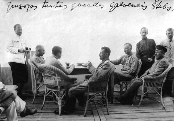 Headquarter of Civil Guard.